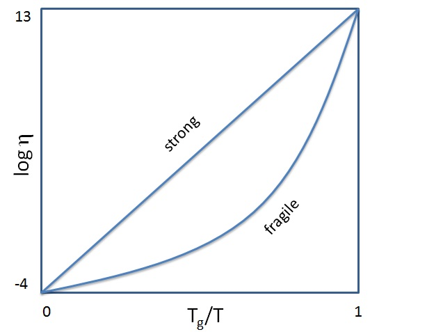 Schematic Angell plot of glass fragility. Includes qualitative "strong" and "fragile" glass formers.